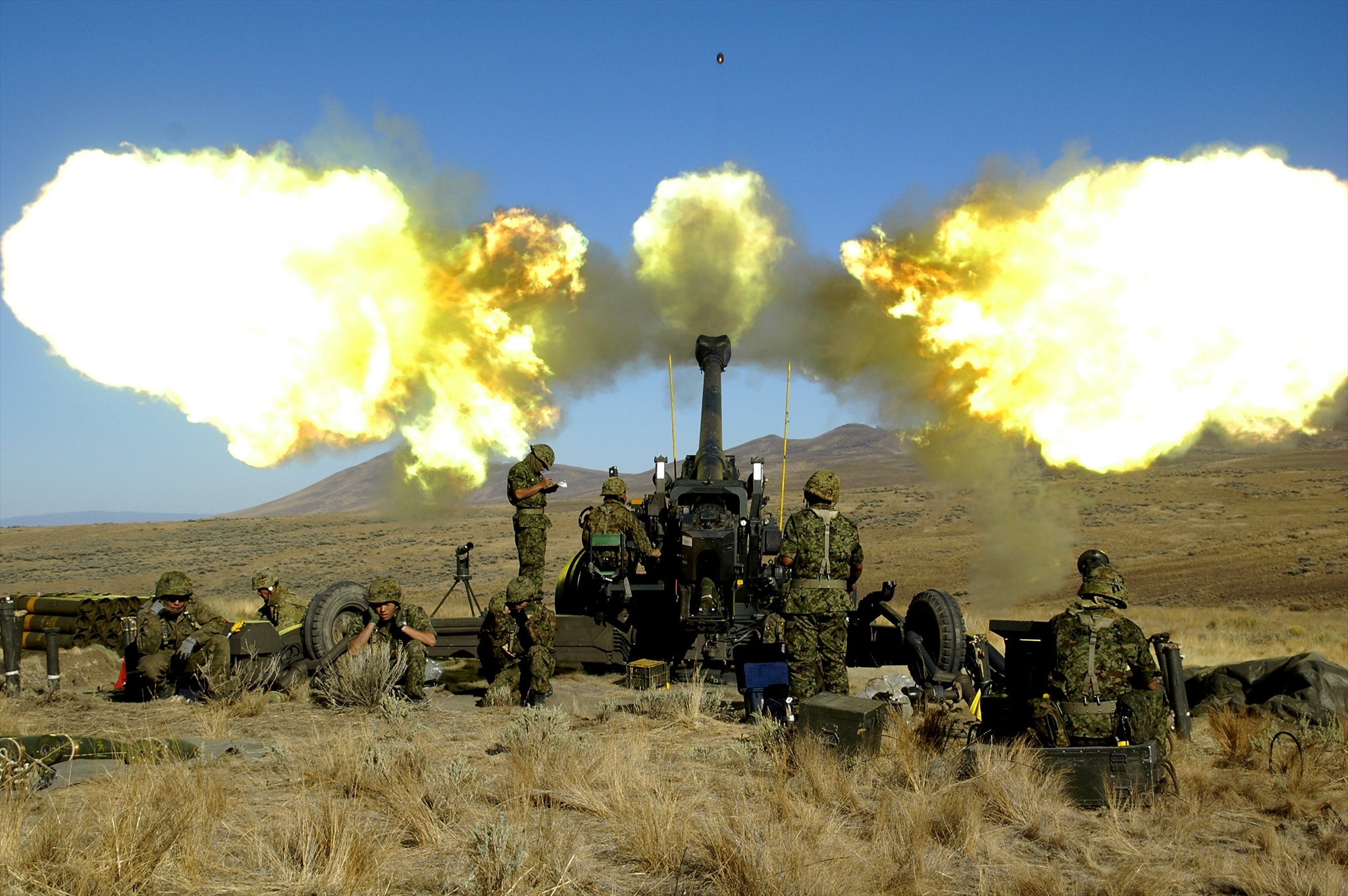 Title １５５ｍｍ榴弾砲ＦＨ７０19.9.10 「伝説の炎」米国における特科長射程射撃_R.jpg Album 装備 １５５ｍｍ榴弾砲ＦＨ７０